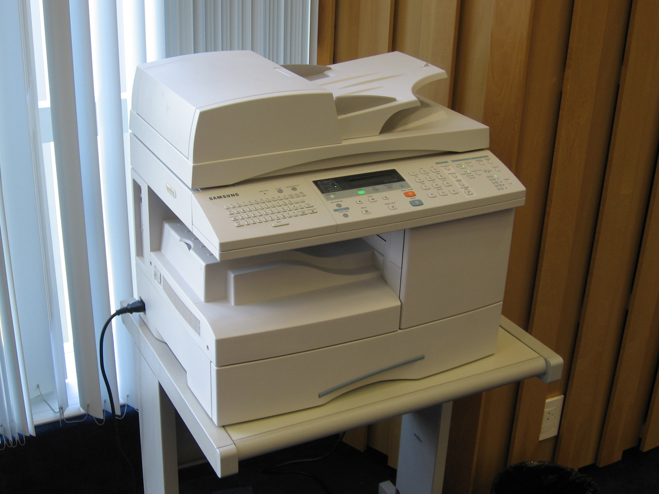 Samsung SCX-6320F Multi-functional Laser Printer